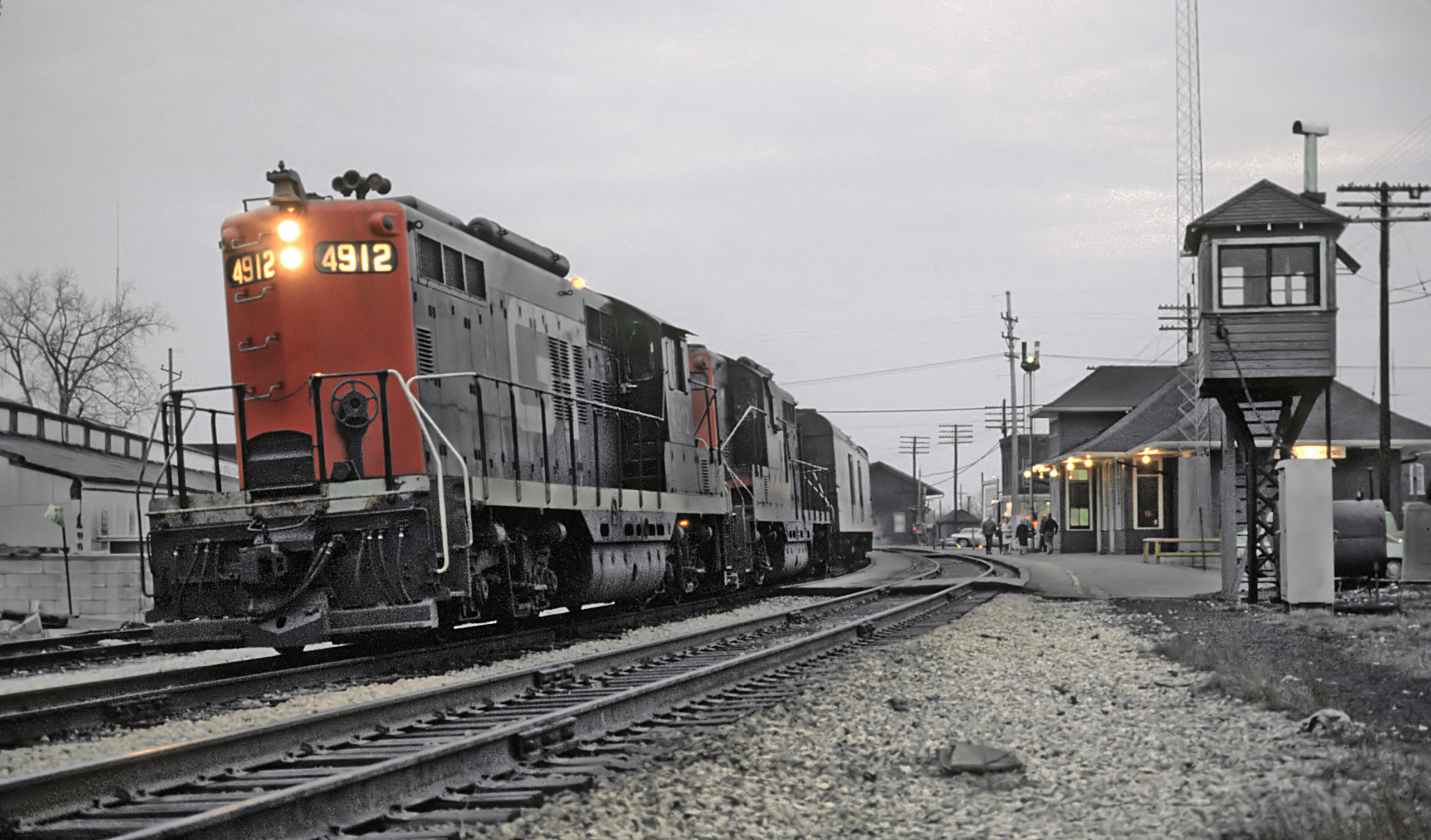 GTW GP9 #4912 leads the Maple Leaf through Valparaiso, Indiana in February 1971